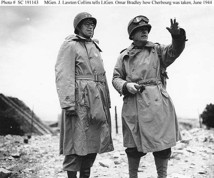 Lieutenant General Omar Bradley (left), Commanding General, U.S. First Army, listens as Major General J. Lawton Collins, Commanding General, Seventh Corps, describes how the city of Cherbourg was taken. Photographed in late June or early July 1944. Note Collins' goggles, and M1911 pistol in a shoulder holster worn outside his overcoat.